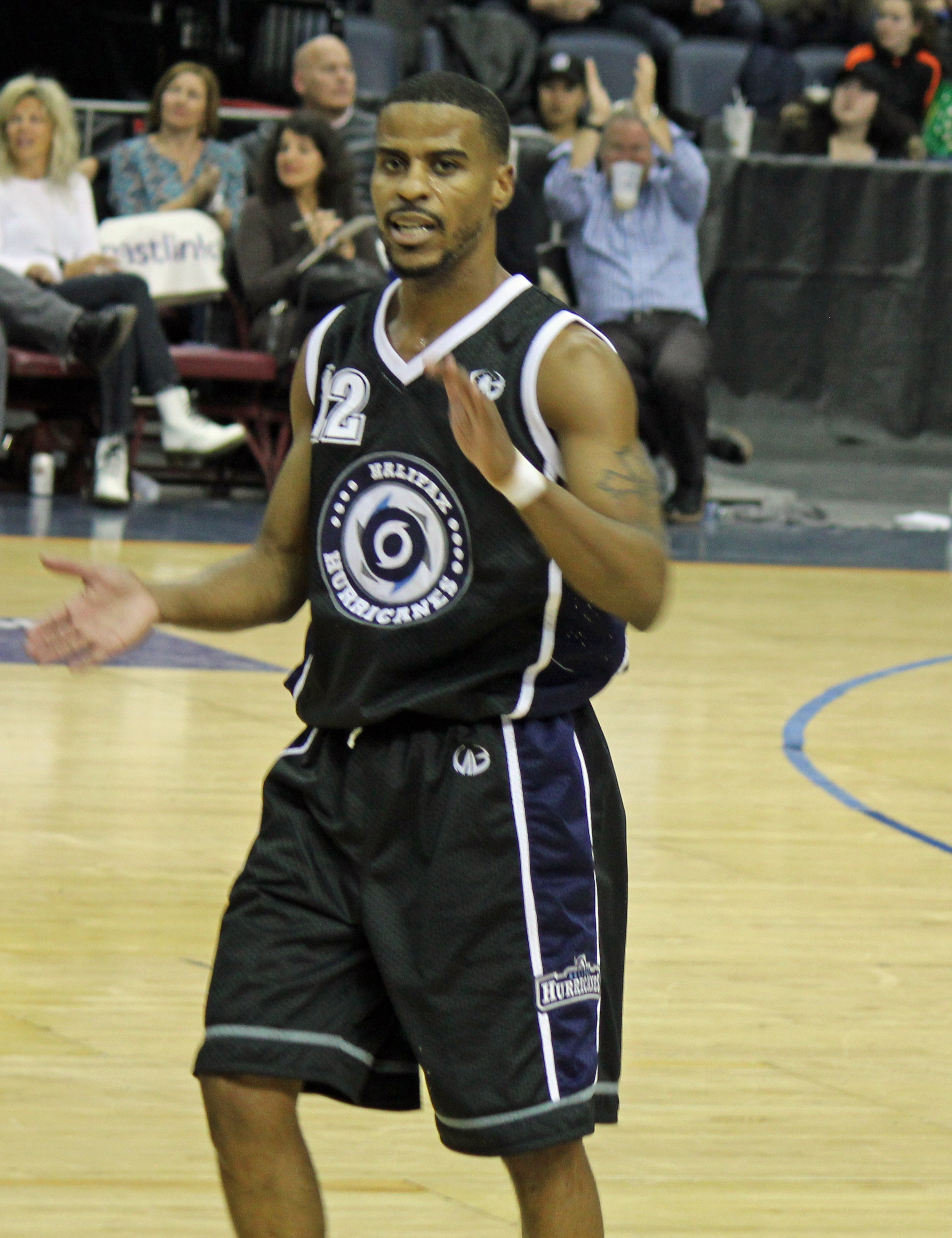 Clint